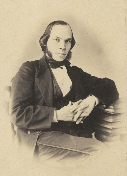 Vladimir Lenin's father, Ilya Nikolaevich Ulyanov (1831 - 1886)